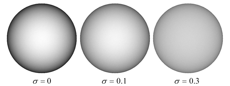 Here are rendered images of a sphere using the Oren-Nayar model, corresponding to different surface roughnesses (i.e. different σ {\displaystyle \sigma } values)